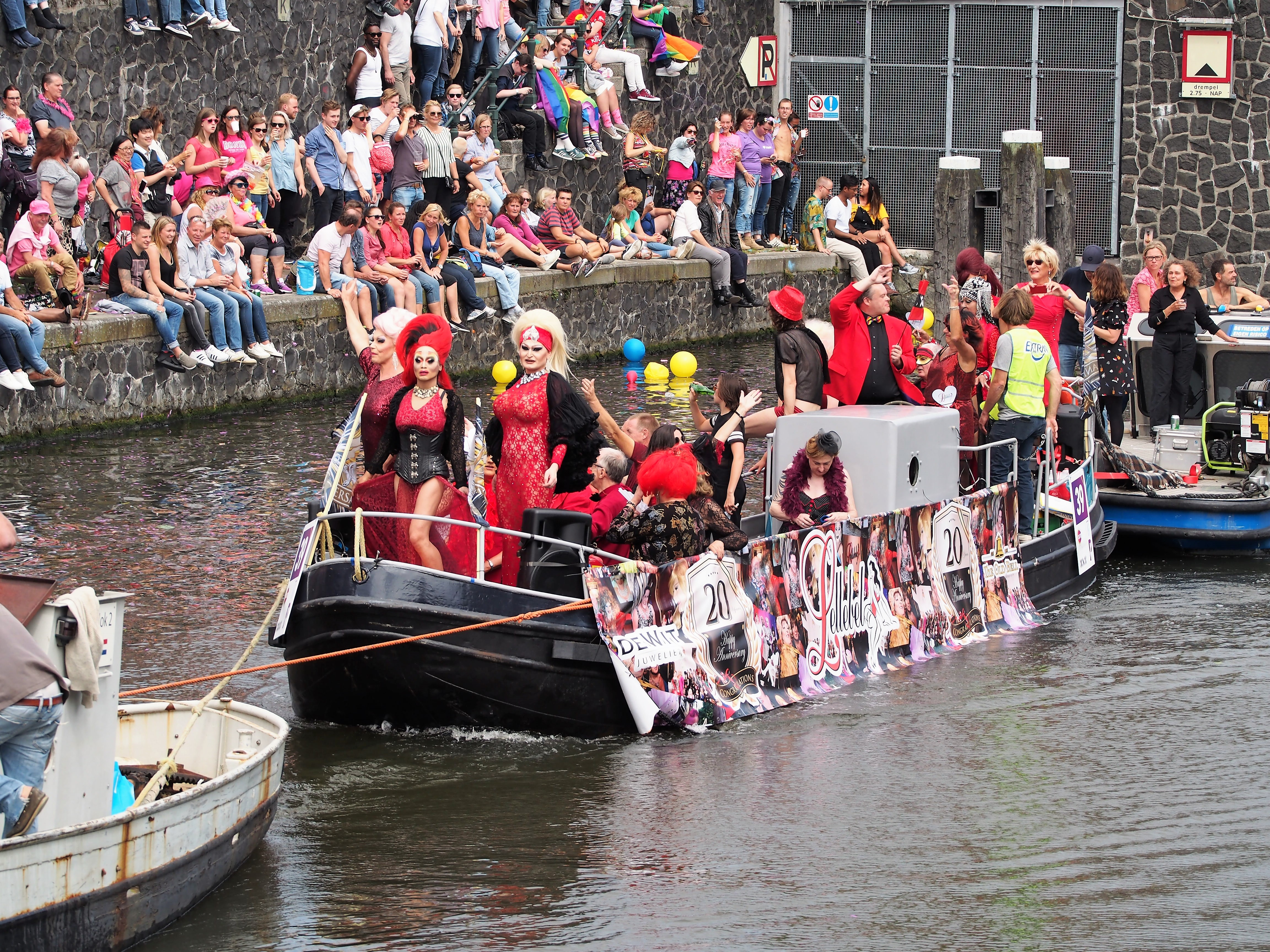 Amsterdam Canal Parade, The Netherlands.